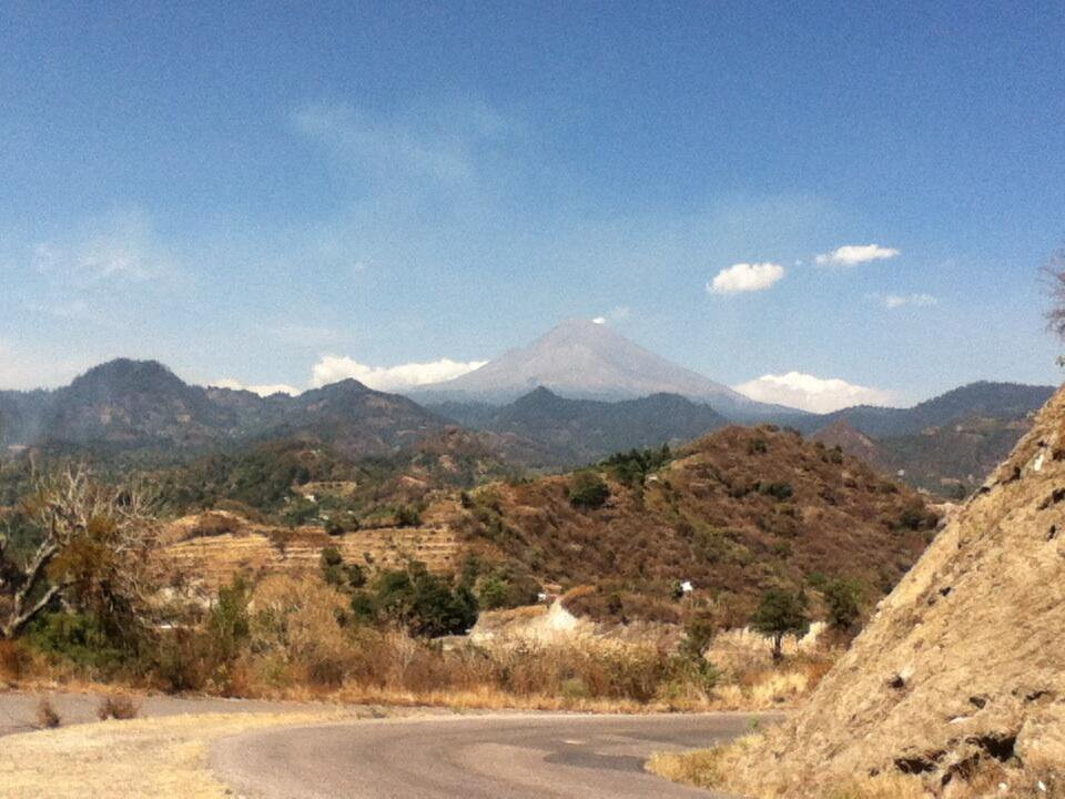 Volcán Popocatépetl